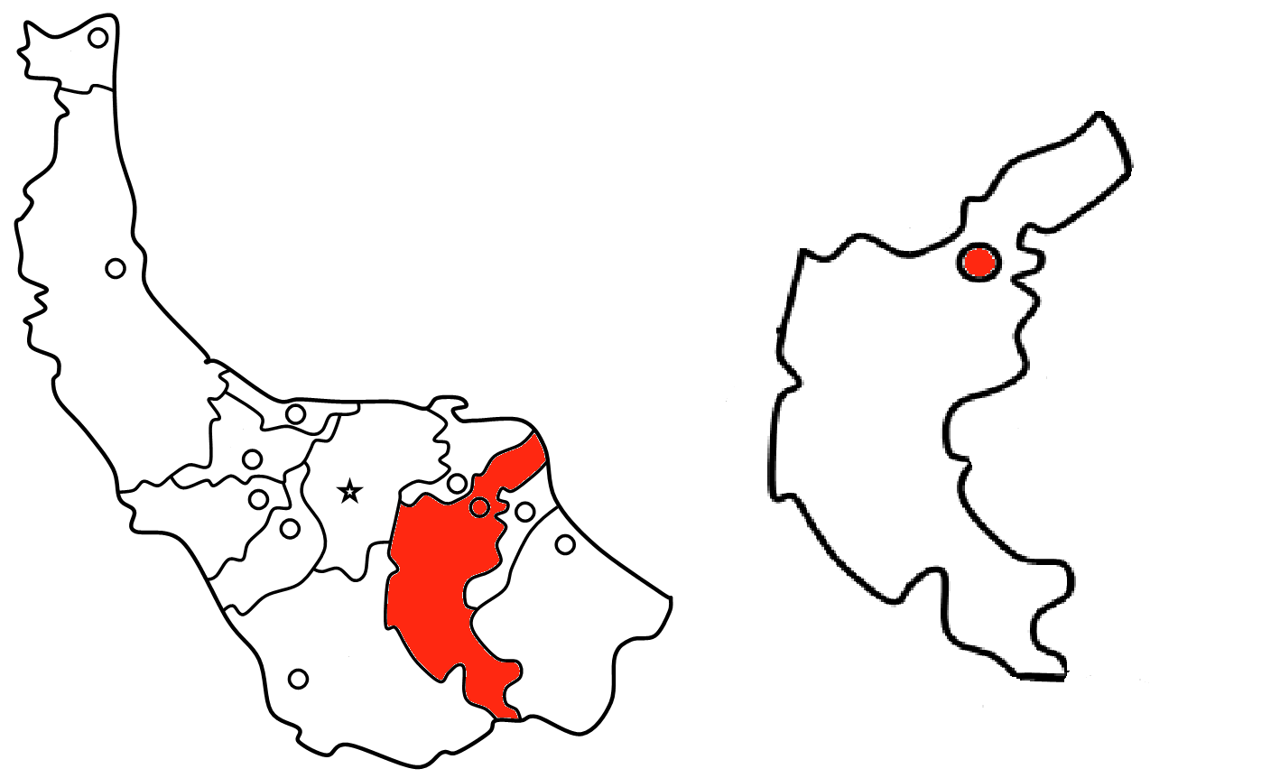 Lahijan city position in Lahijan county and Gilan province.